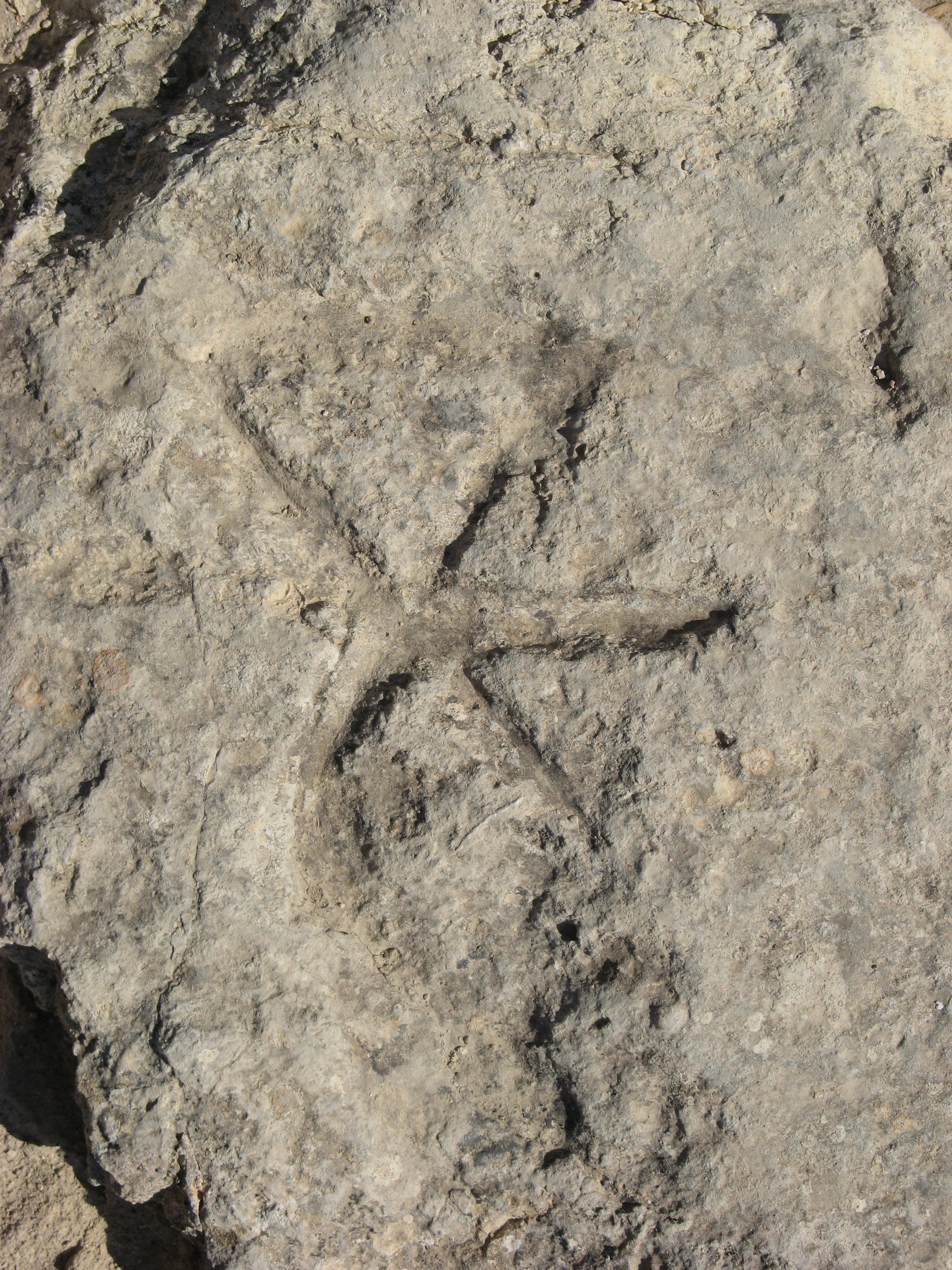 A carving of a double axe at Knossos